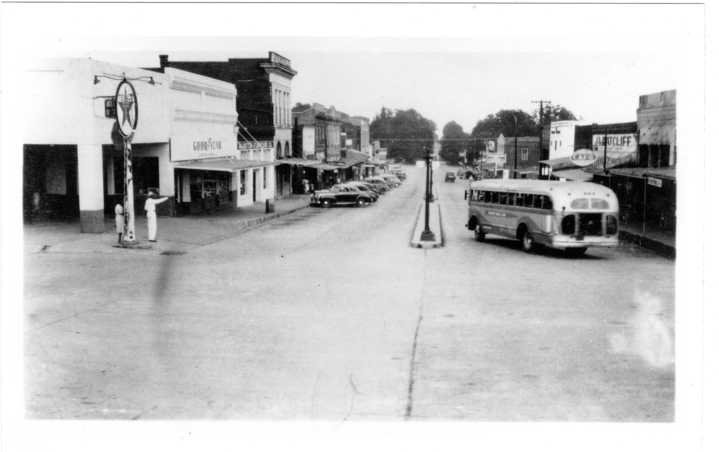 Collection: Gloster, Mississippi Collection Call number: PI/1982.0159 System ID: 104487. Link to the catalog Main Street of Gloster, Mississippi, 1948. View shows commercial bus driving on Main St., Gloster, Mississippi. Please see our profile page for information on ordering. Scanned as tiff in 2011/01/18 by MDAH. Credit: Courtesy of the Mississippi Department of Archives and History